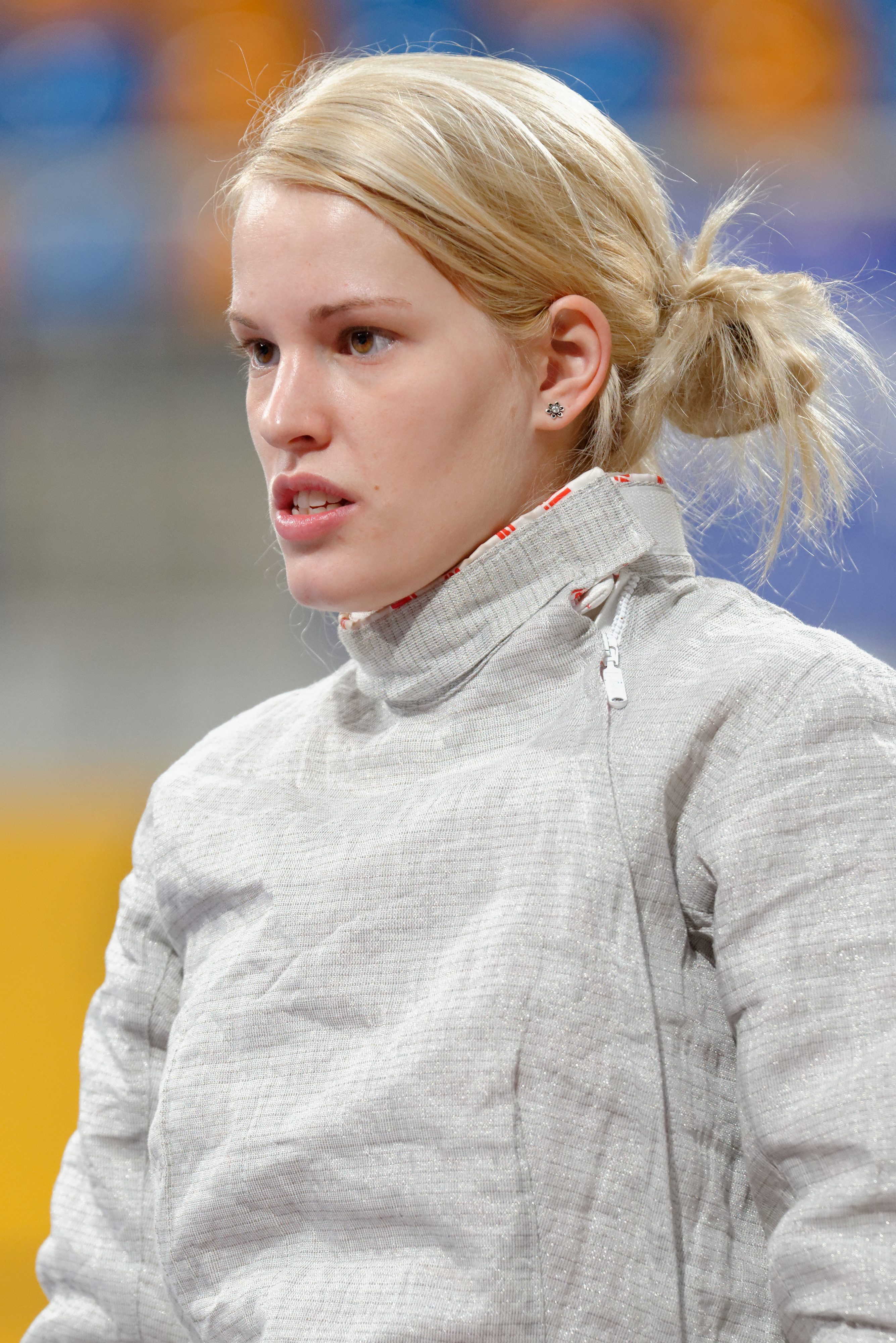 Germany's Alexandra Bujdoso in the team event of the 2014–15 Orléans World Cup in women's sabre.